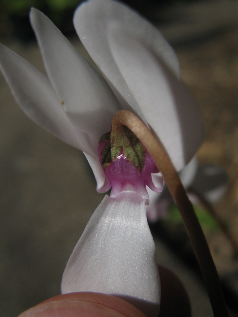 The pink center of a Cyclamen hederifolium 'Album', behind the folded petals.